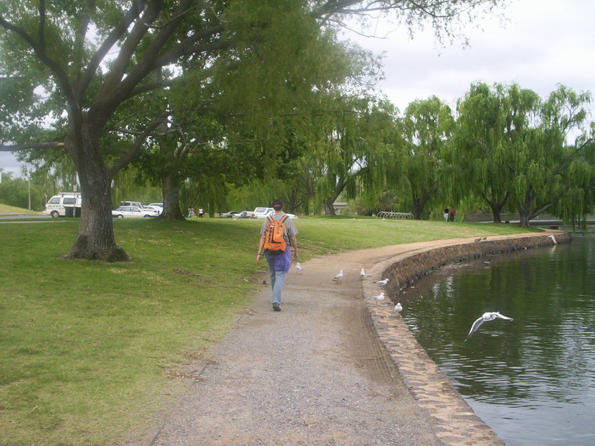 Kings Park. I took the photo Lorienismo 11:46, 23 August 2005 (UTC)